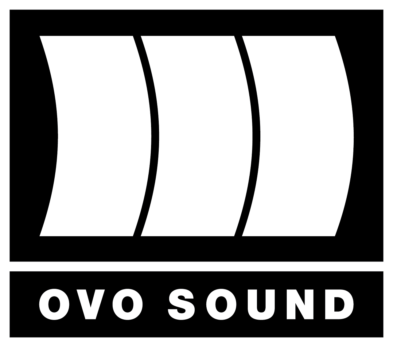 Label Artwork.